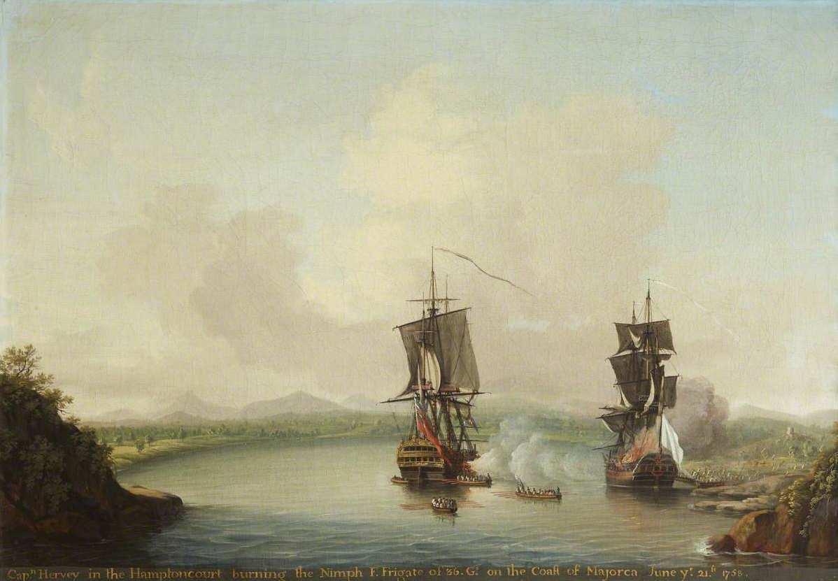 Lord Augustus John Hervey (1724–1779), Later 3rd Earl of Bristol, in the Hampton Court, Burning the Nimph on the Coast of Majorca, 21 June 1758. Seven Years' War. Note: Artist error for arming (which is not 36 guns, but only 24 guns) and date (1758 instead of the actual 1757). Seven Years War. References for this description (or part of this) or for the depiction in the file are not provided. Relevant discussion may be found on the talk page.